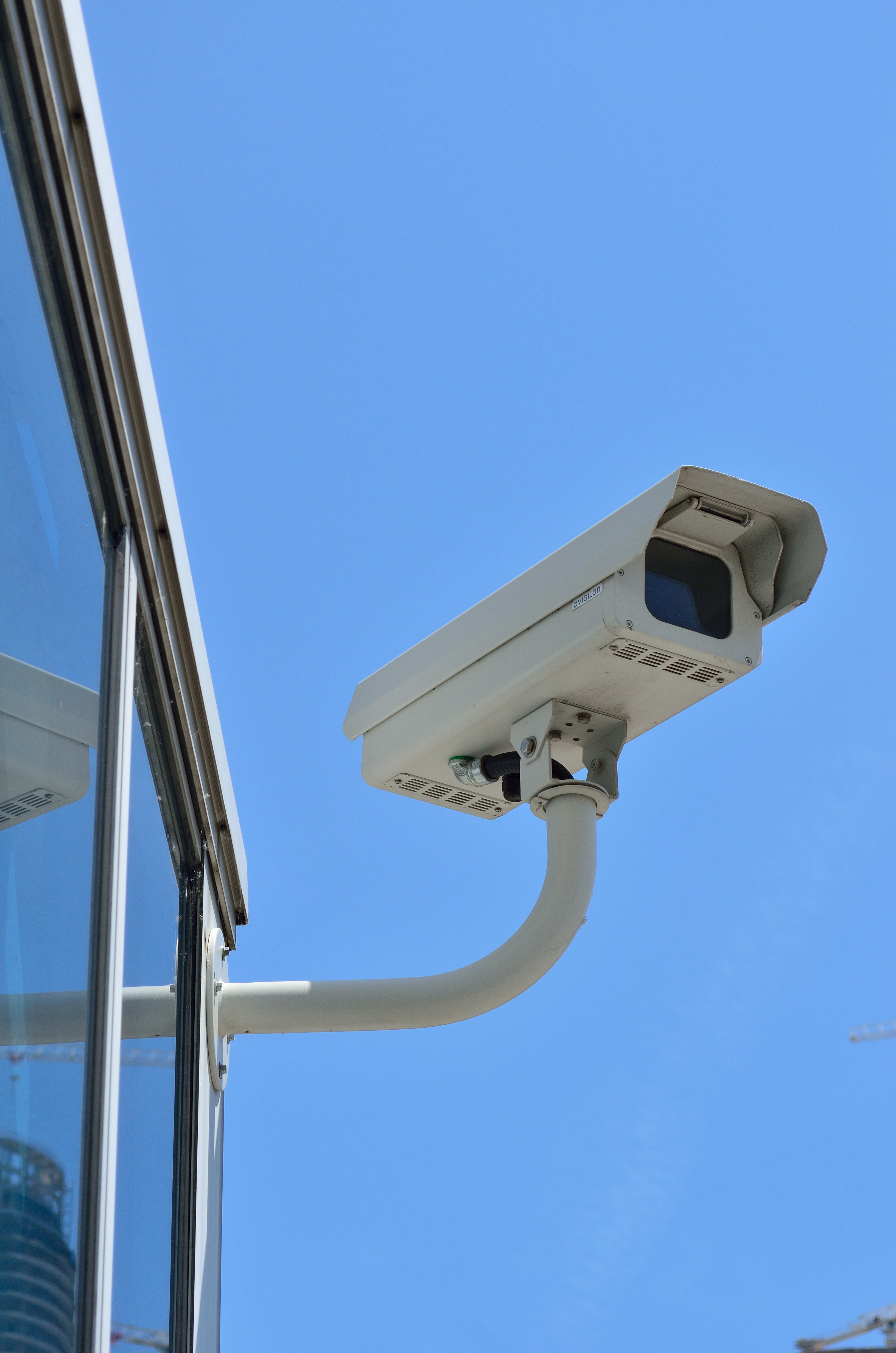 CCTV & blue sky.